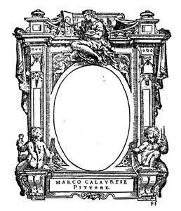 Illustratio from "Le Vite" by Giorgio Vasari, edition of 1568. For the artist portrayed see filename